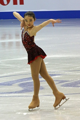 Photos – Junior World Championships 2014 – Ladies (Karen Chen)